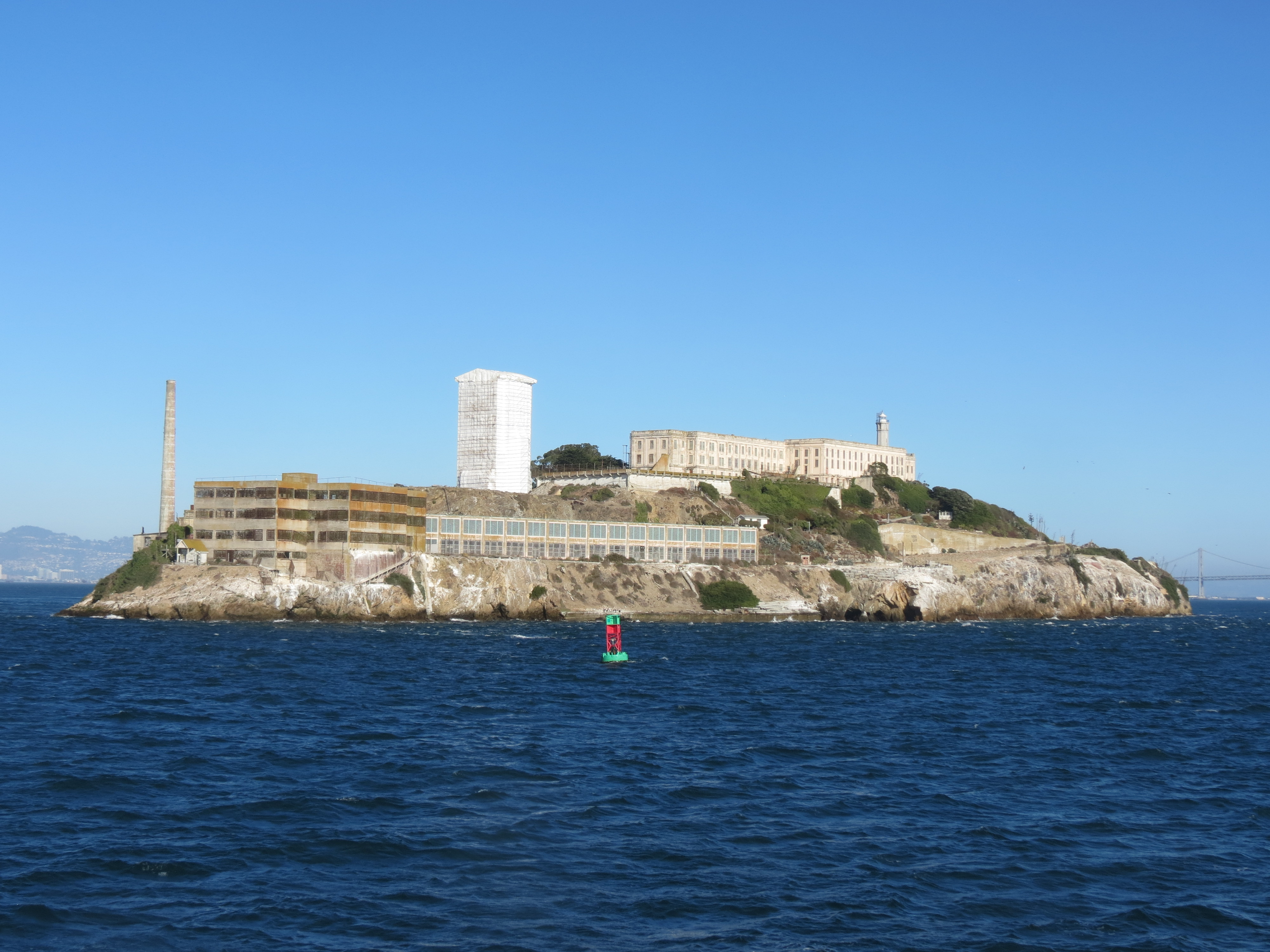 Alcatraz from the Tiburon to San Francisco ferry